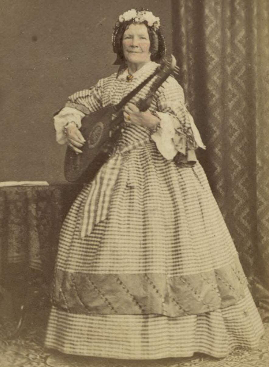 A portrait from the Welsh Portrait Collection at the National Library of Wales. Depicted person: Maria Jane Williams – Welsh musician and folklorist